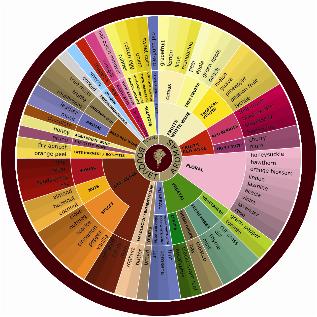 Wine Aroma Wheel by Aromaster